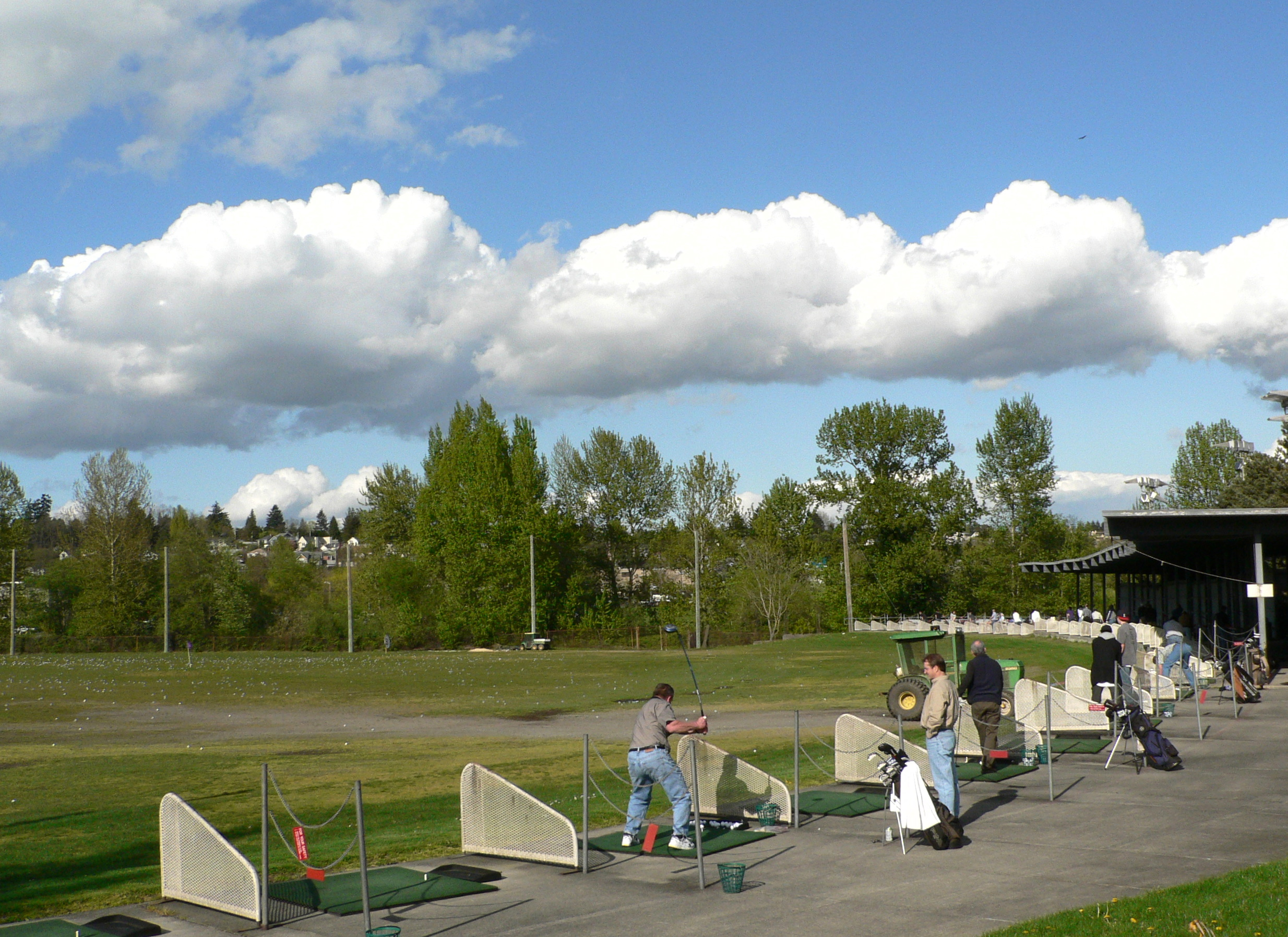 Golf driving practice range with 43 lighted tees (20 covered) at the University of Washington. It is 230 m long.